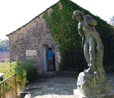 Jen-Henri Fabre's bithplace.